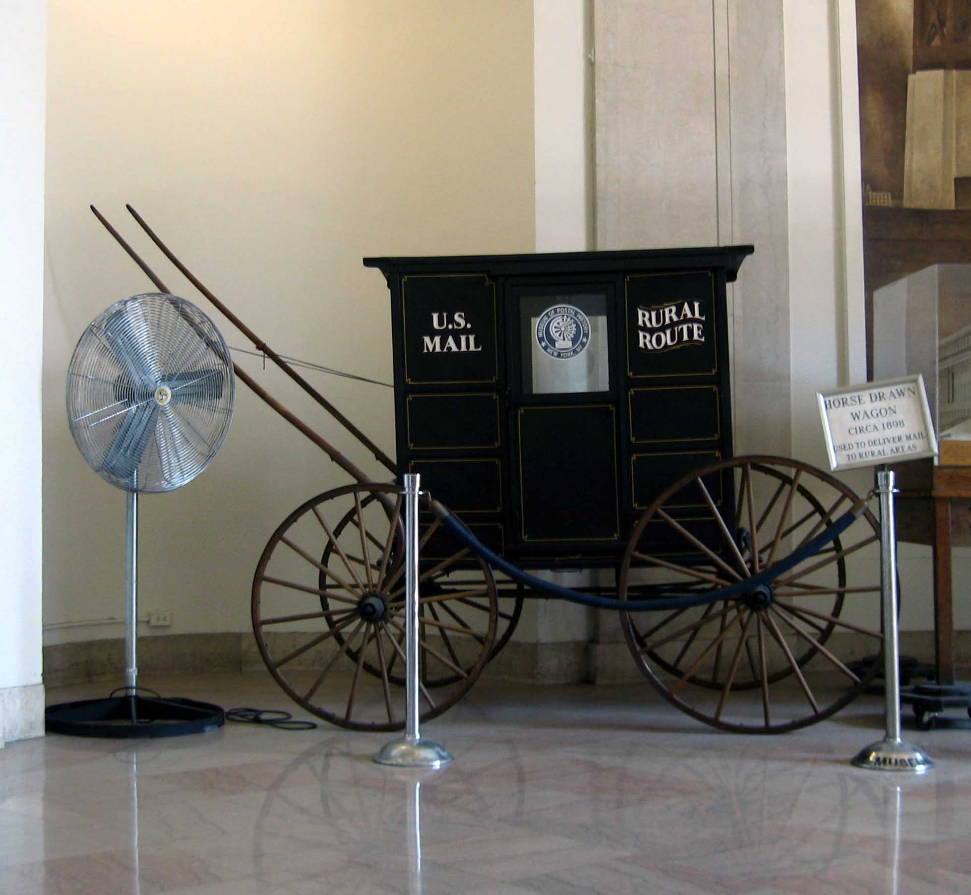 Antique Mail Coach displayed in south lobby of Farley Post Office in Manhattan. Replaced Aug 2010 by less cluttered File:US Mail Coach jeh.jpg